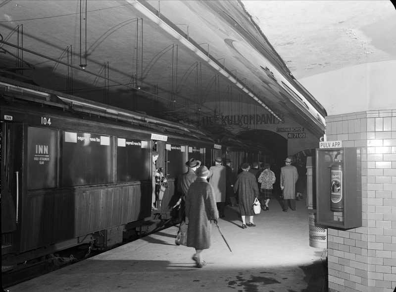 Nationaltheatret Station of the Oslo Metro